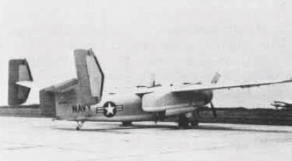 The The U.S. Navy Grumman XTF-1W plane. This aircraft, BuNo 136792, was to be delivered as a standard TF-1 (C-1A) Trader, but it was pulled off the Grumman production line and used as an aerodynamic prototype for the WF-2 (E-1B) Tracer airborne early warning aircraft. It was fitted with a twin tail and an aluminium radome, but not with any electronics. On 11 September 1969 it arrived at the Overhaul and Repair Department of the Naval Air Station Quonset Point, Rhode Island (USA), and was rebuilt into a standard C-1A, leaving the twin tail. After completion, the plane was assigned as a utility aircraft to NAS Quonset Point on 8 April 1970. The plane made the last U.S. Navy flight out of the closing NAS Quonset Point in 3 April 1974. Lateron the aircraft served at other U.S. East Coast NAS before being retired at NAES Lakehurst, New Jersey (USA) on 3 February 1983. The aircraft is today on display at the Quonset Air Museum, North Kingstown, Rhode Island (USA).